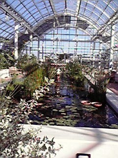 This is one of Matsusaka Agricultural Park Bellfarm's English Garden in Matsusaka, Mie, Japan.